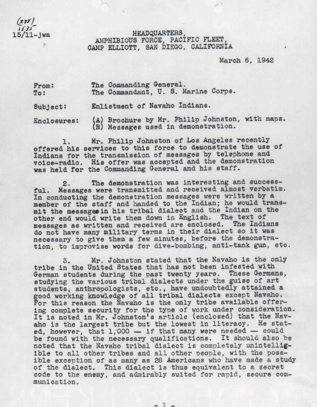 Memorandum regarding the enlistment of Navajo code talkers. Major General Clayton Vogel to the Commandant, United States Marine Corps. Page 1 of 2